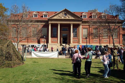 Barr Smith Library on the University of Adelaide open day, 2006